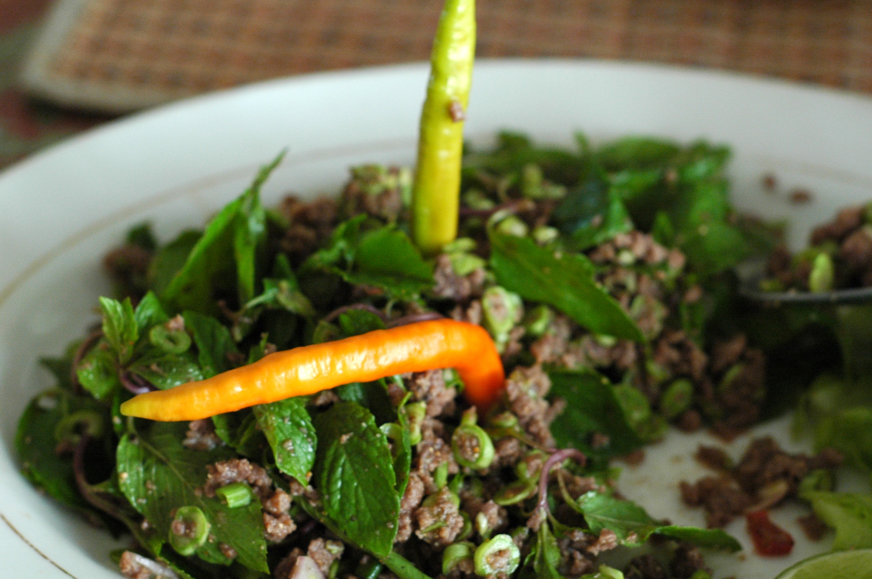 Larb neua (Lao-style beef salad). Taken at Dok Champa Restaurant, Vientiane, Laos.